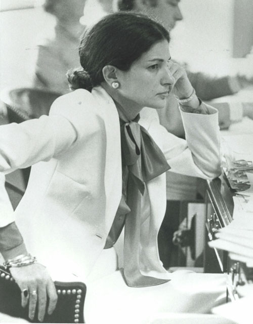 Senator Olympia Snowe in the Maine State Legislature (1977)